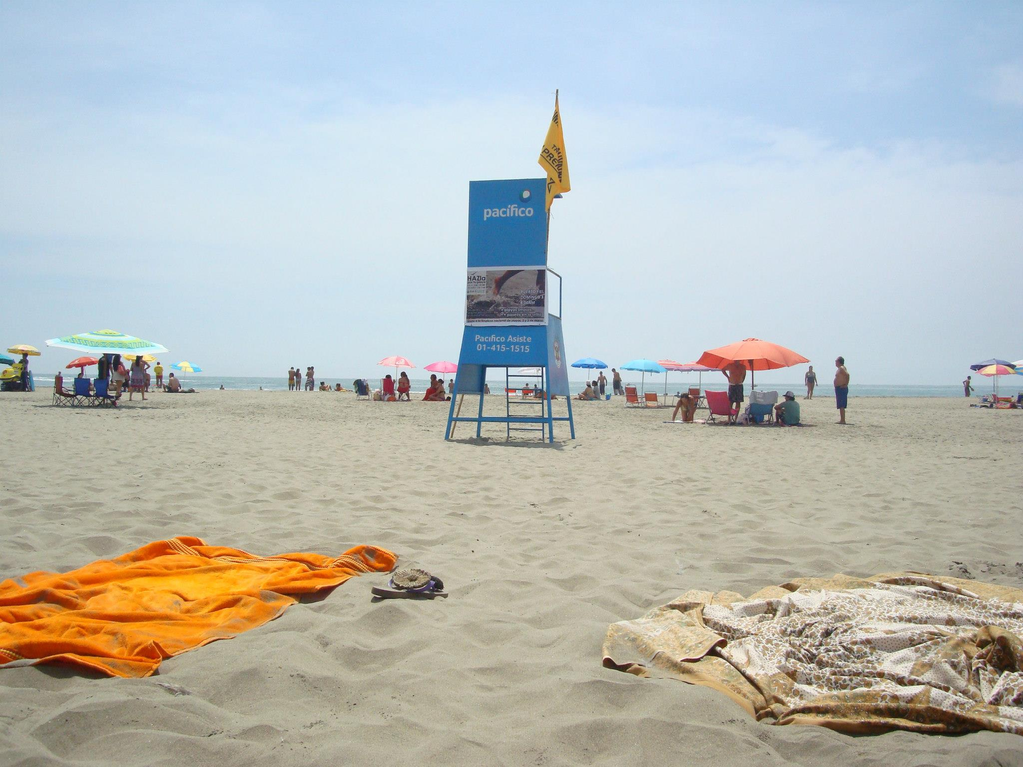 Puerto Fiel, Peru.